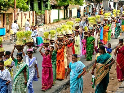 Aadi Special days